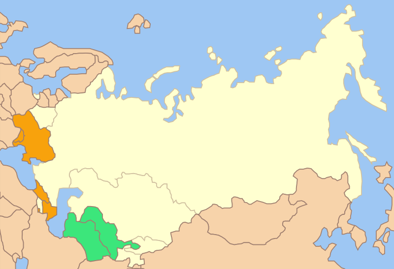 CSTO and GUAM inside the CIS. Purple: CSTO members. Green: GUAM members. Pink: Not a member of neither GUAM nor CSTO. Light Green: Not a member of neither the CIS nor CSTO, but a member of GUUAM.